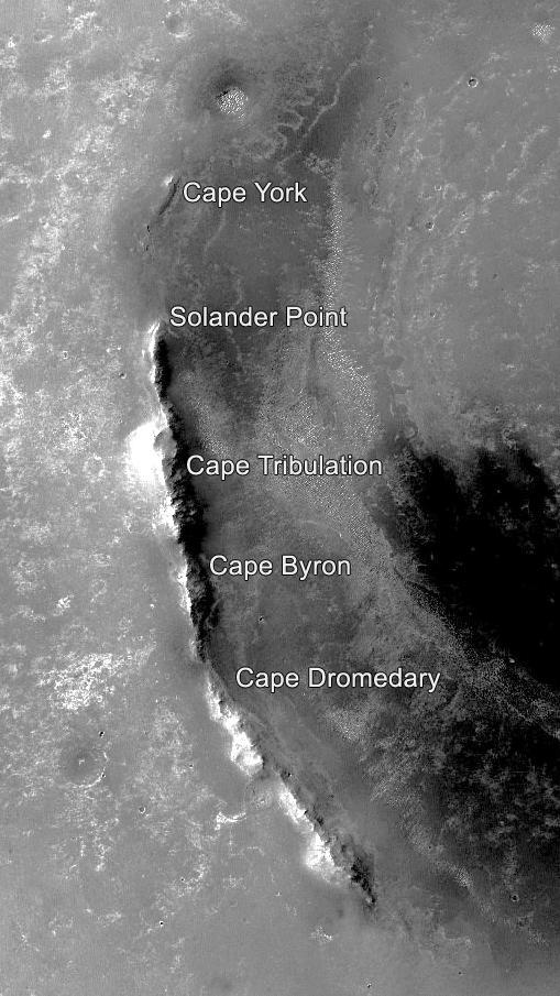 This orbital image of the western rim of Mars' Endeavour Crater covers an area about 5 miles (8 kilometers) east-west by about 9 miles (14 kilometers) north-south and indicates the names of some of the raised segments of the rim.